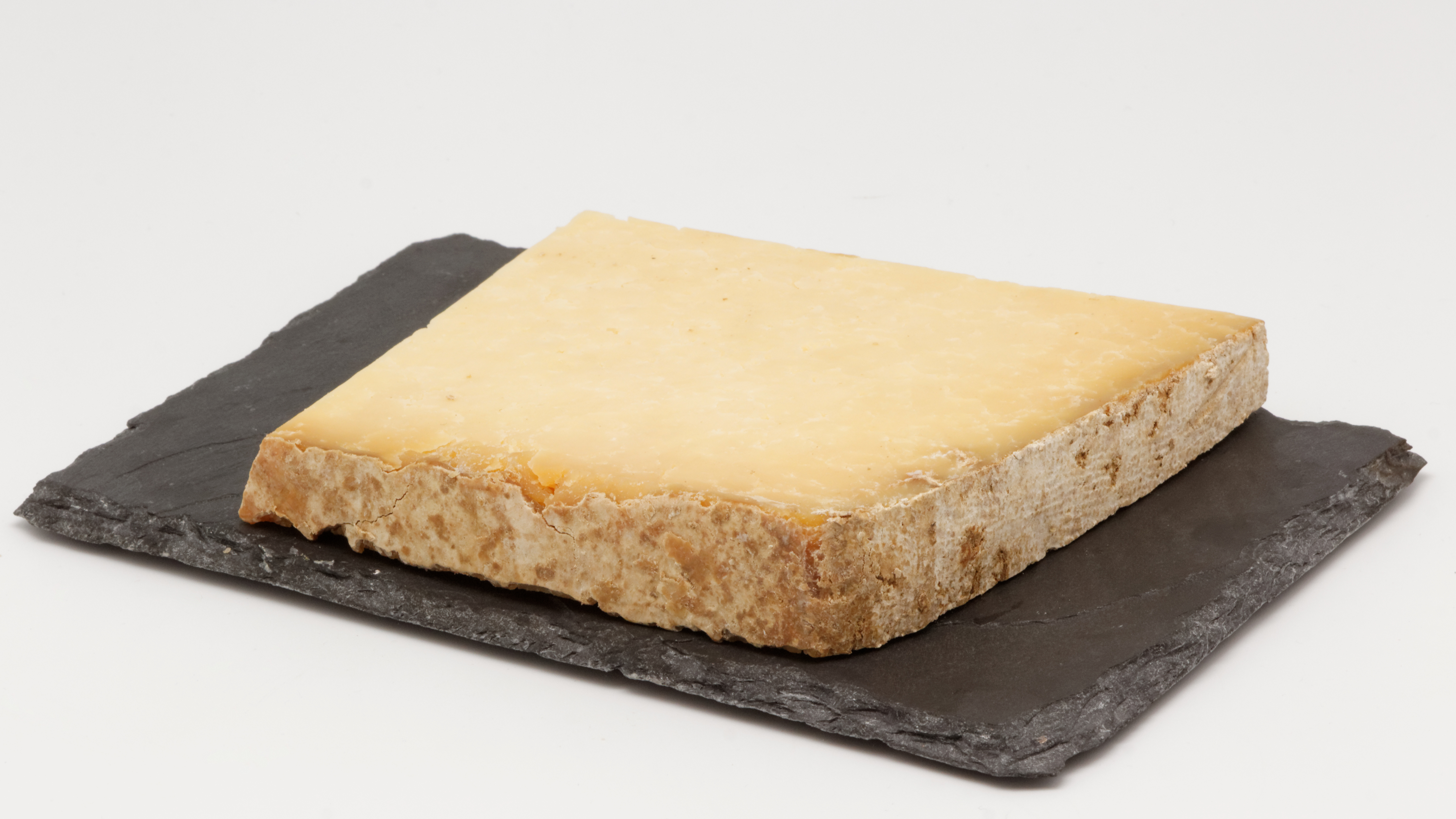 Salers